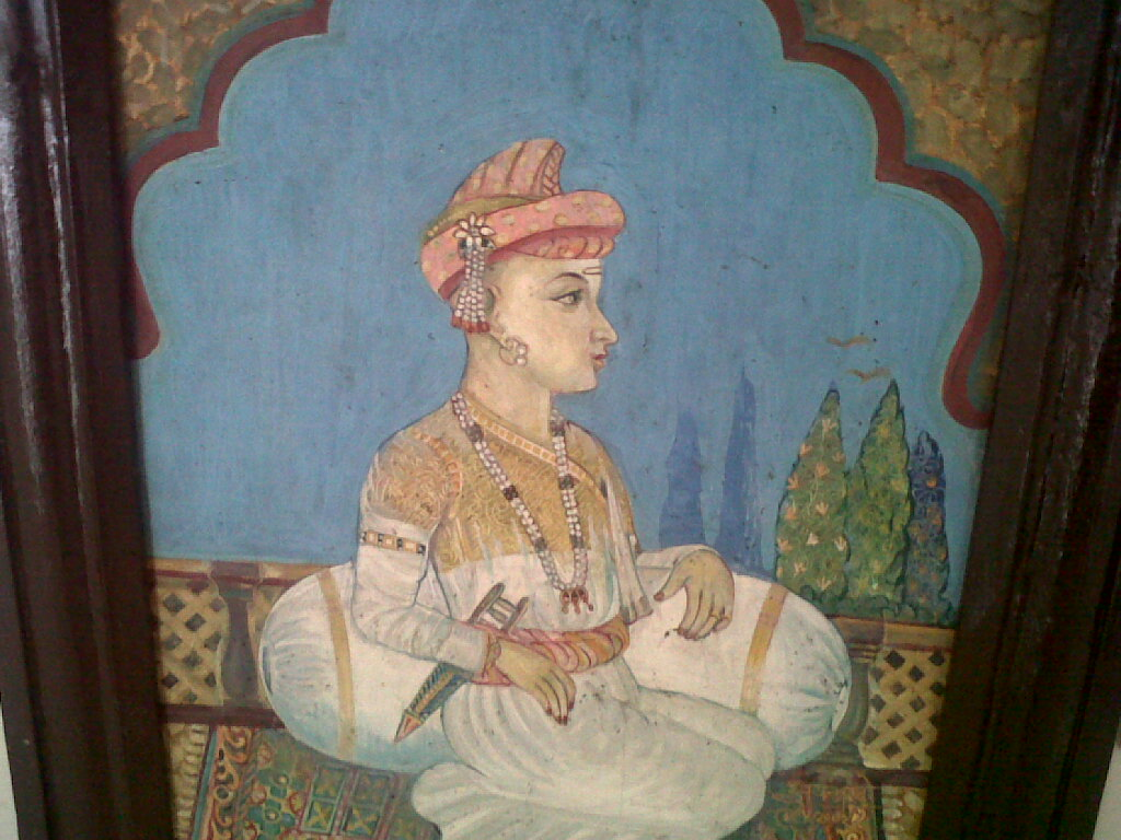 Shreemant Vishwasrao Ballal Peshwa